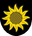 Coat of Arms of Stráž pod Ralskem (a town in Liberec Region, the Czech Republic)